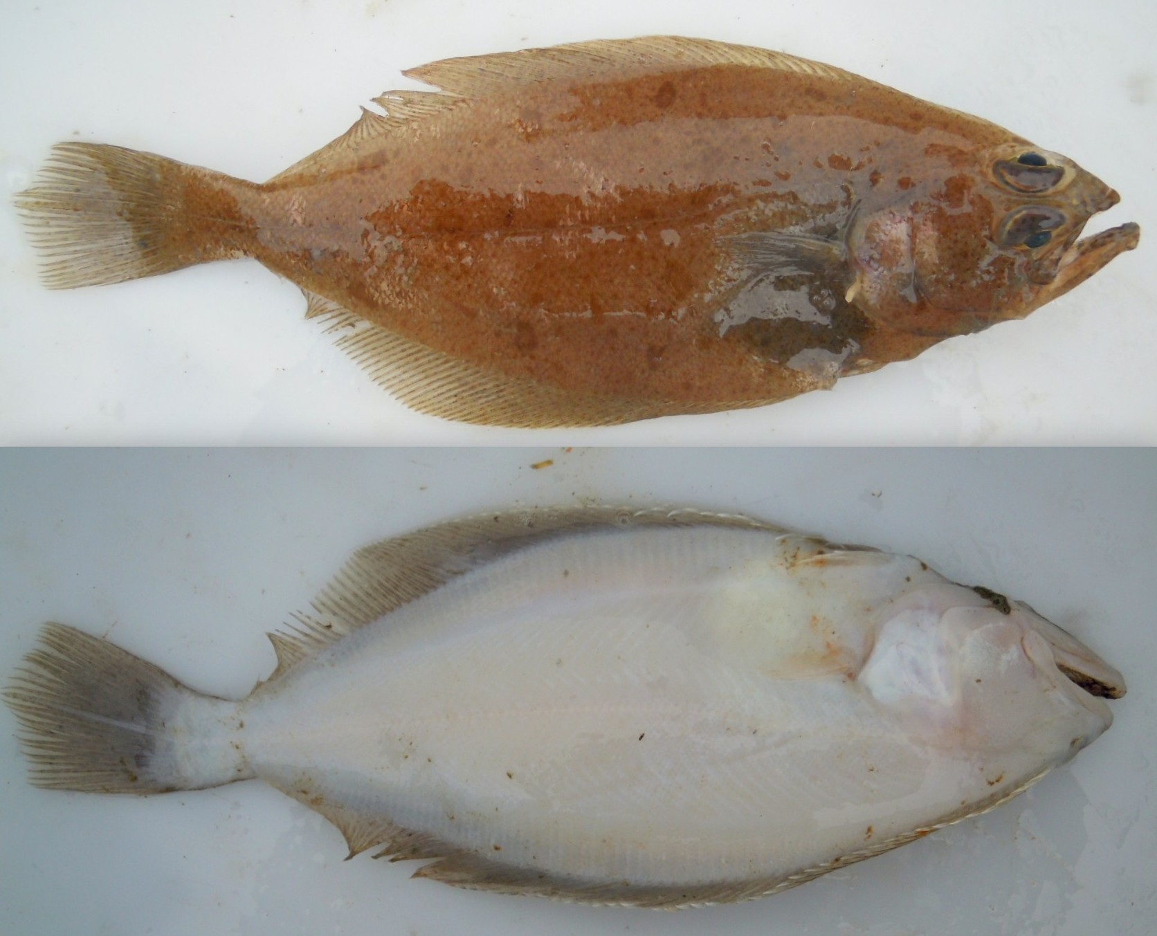 American plaice or sole, Hippoglossoides platessoides, Stavern, Norway. You are free to use this picture outside Wikipedia (see license), as long as you write: Photo: Arnstein Rønning